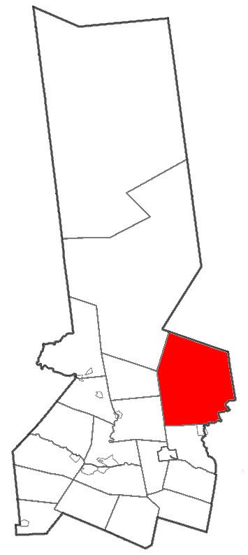 Map of Herkimer County highlighting Salisbury